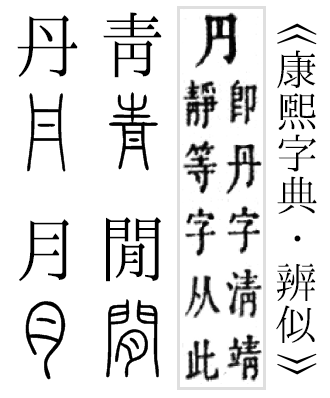 According to the section about distinguishing similar characters in the Kangxi Dictionary, the lower part of the character 青 is actually a variant of the character 丹, not the character 月, though this part looks the same as 月 in handwriting. Comparing the original forms in the seal script of the characters 青 and 丹 with 月 and 閒, a character which has 月 as its lower part, the difference between them is obvious.